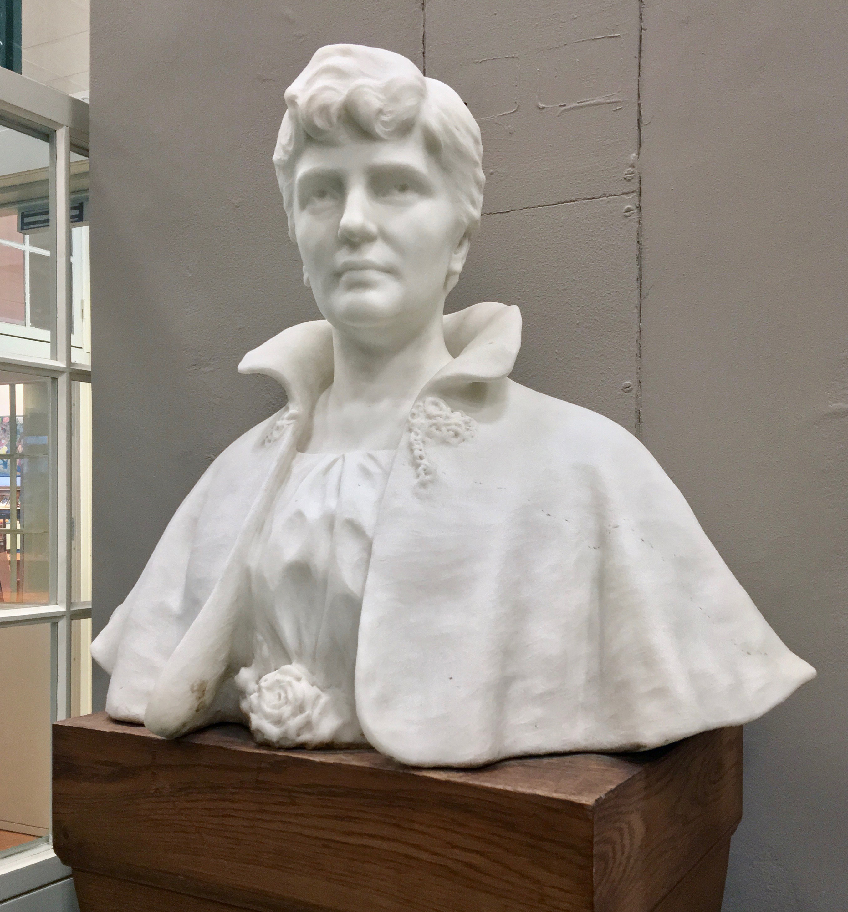 Monumental marble bust of author Norwegian feminist author Amalie Skram (1846–1905) by Ambrosia Tønnesen (1916), on display in Bergen Public Library, Norway. Photo 2018-03-18.